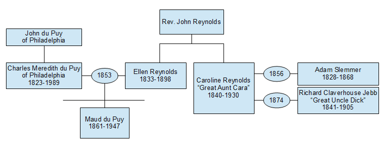 Corrrected version of family tree for Period Piece (book)